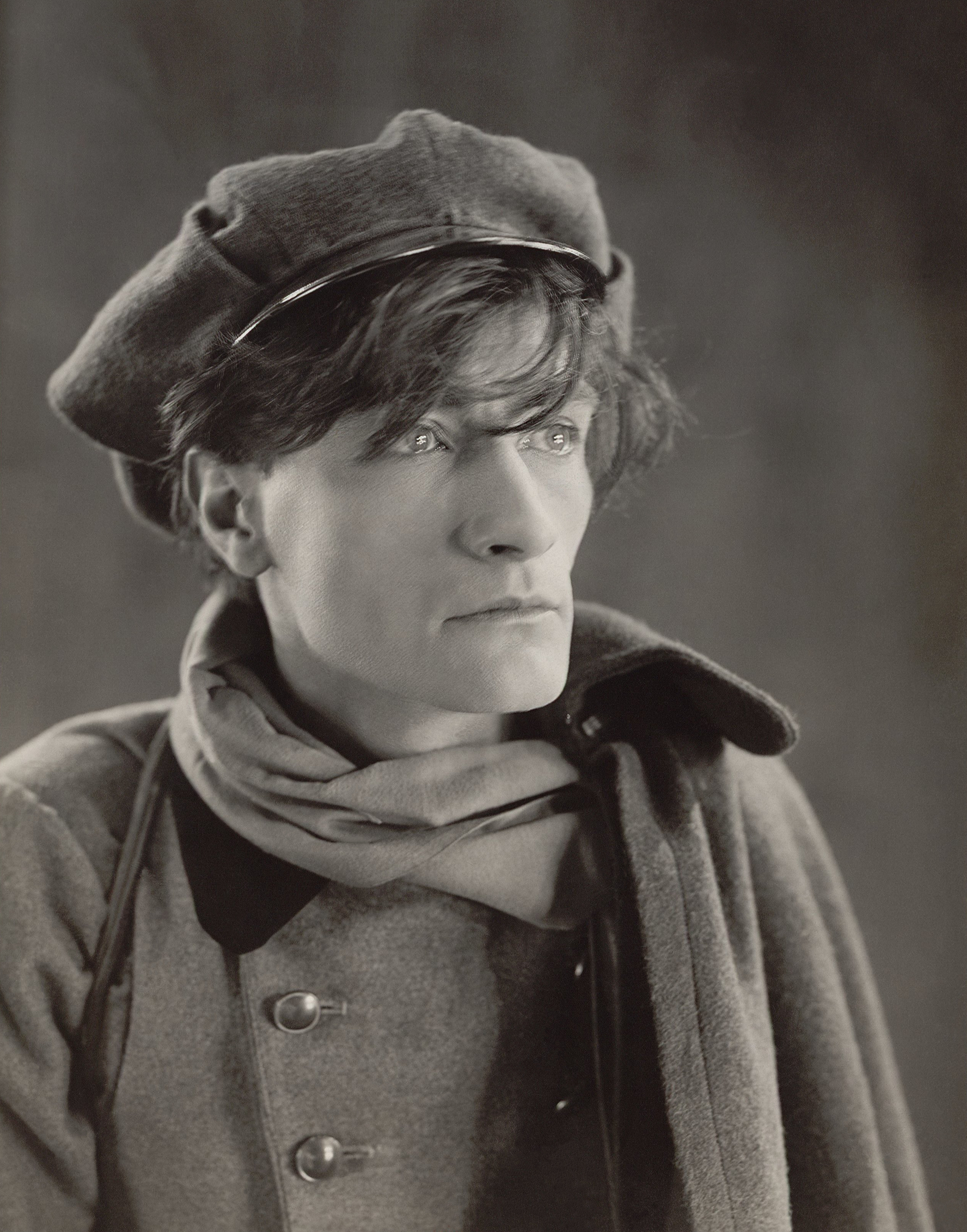 Antonin Artaud (1896-1948), theatre director, poet, actor, and playwright. Restored and cropped print.